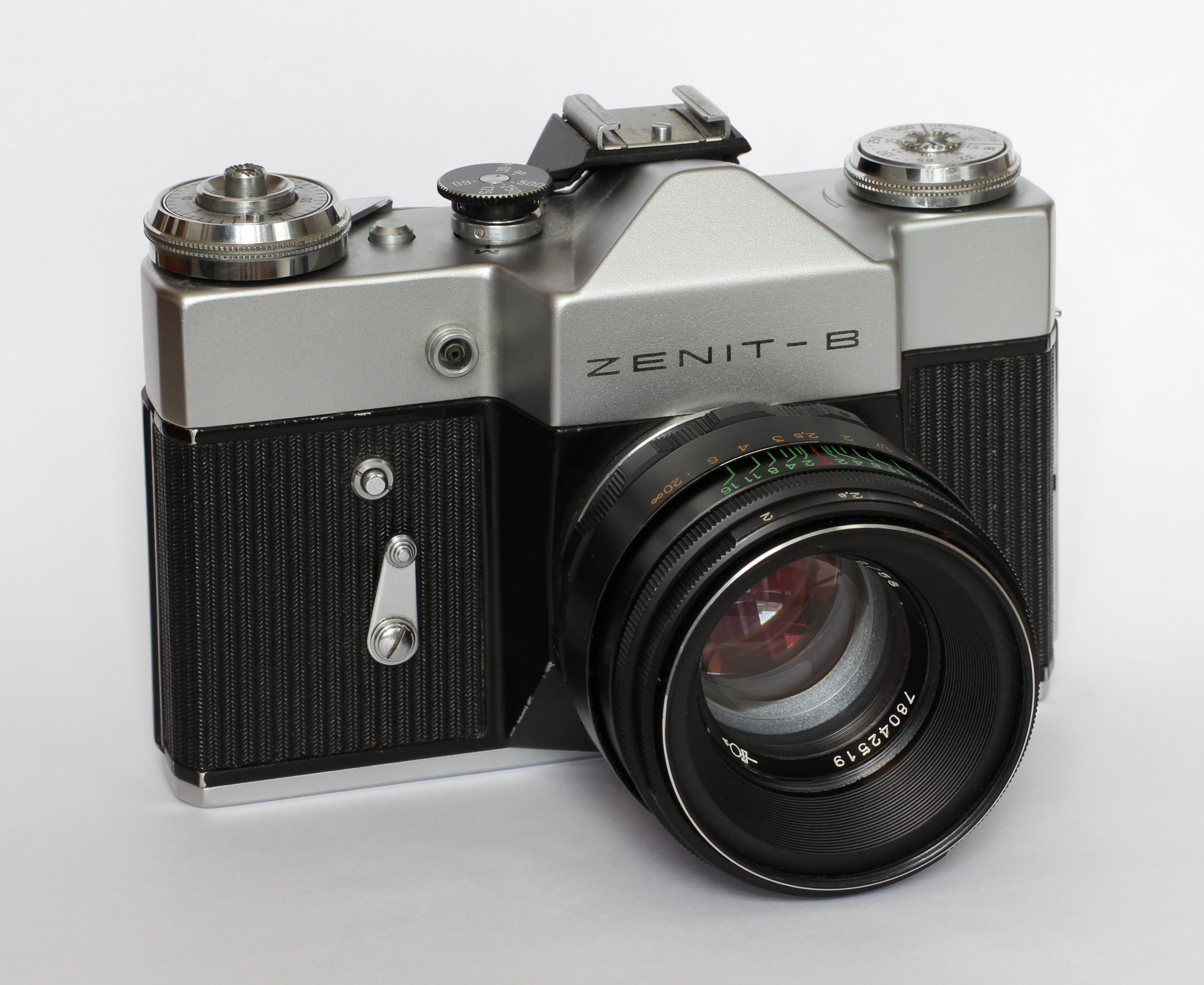 Zenit-B soviet SLR film camera with soviet Helios-44-2 lens.